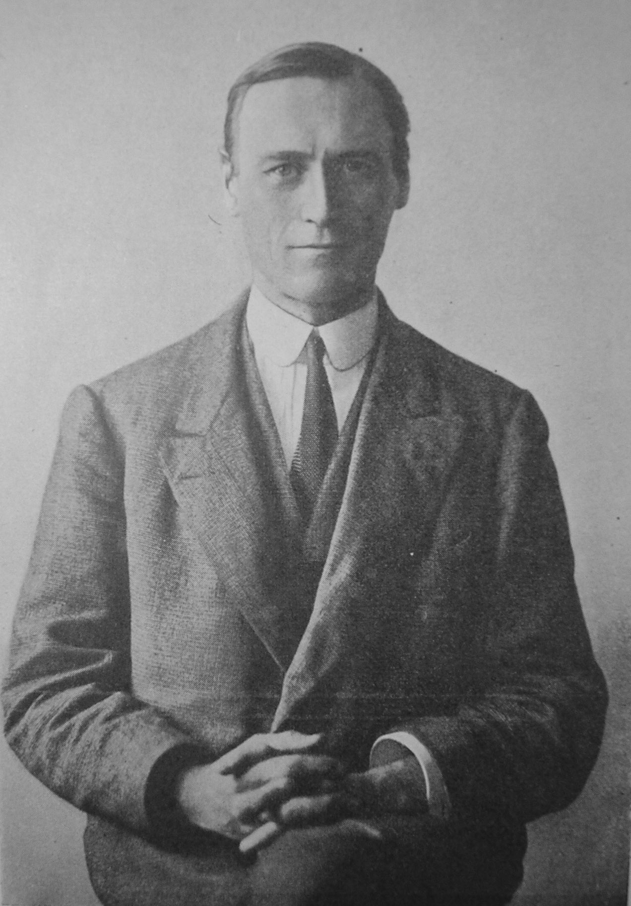 Portrait of Pierre Ceresole (1879–1945)